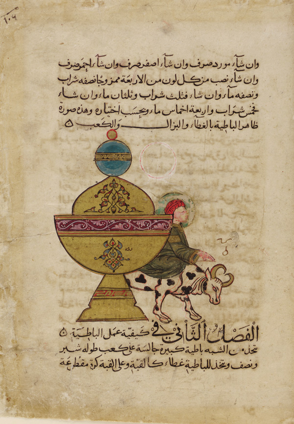 A Table Devicefrom a copy of al-Jazari's treatise on automata, Kitab fi ma'ari-fat al-hiyal al-handasiya (1206 C.E.)